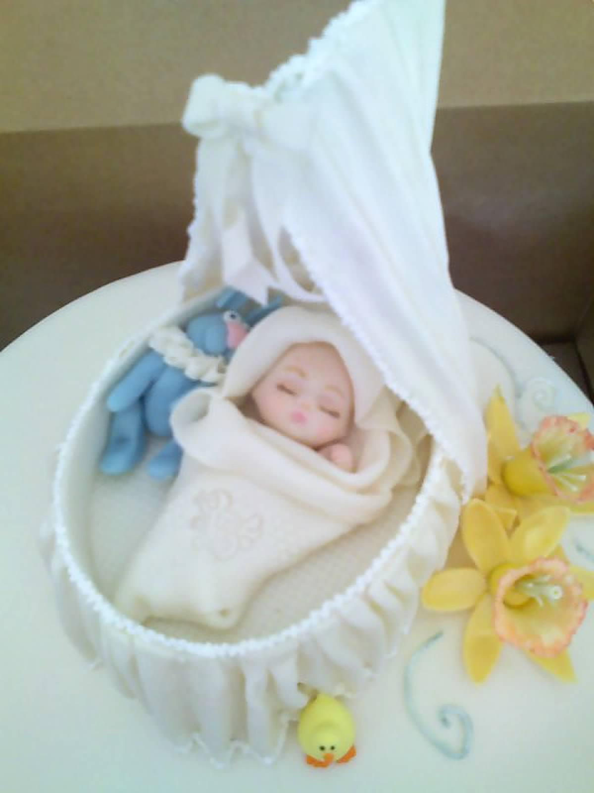 Cakes made for a baby shower